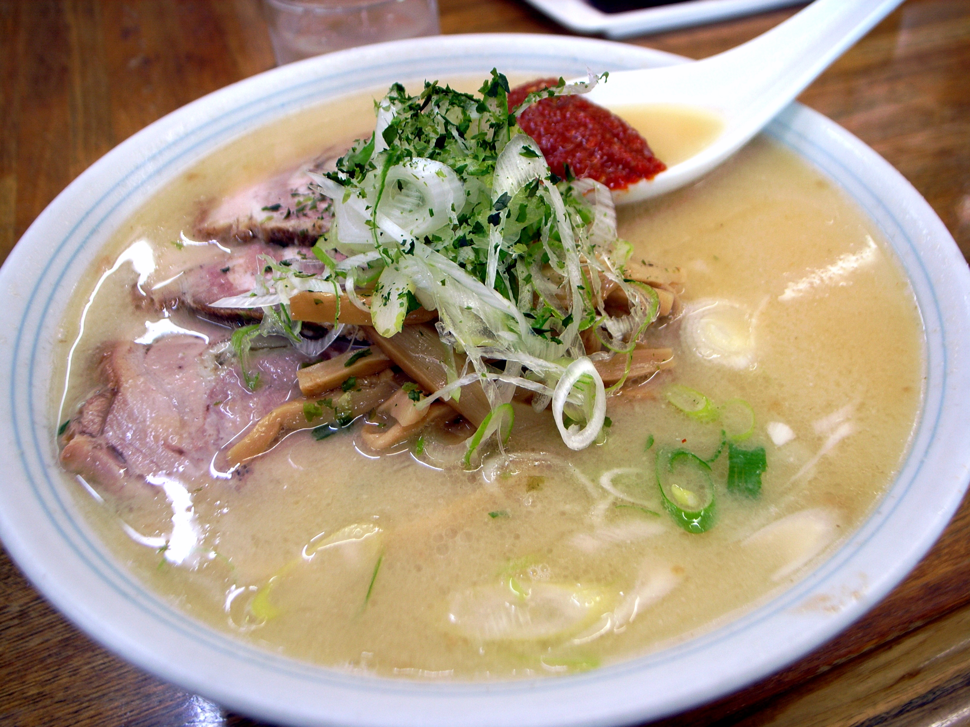 Karamiso Ramen from Ajiyoshi in Sendai, Miyagi, Japan.